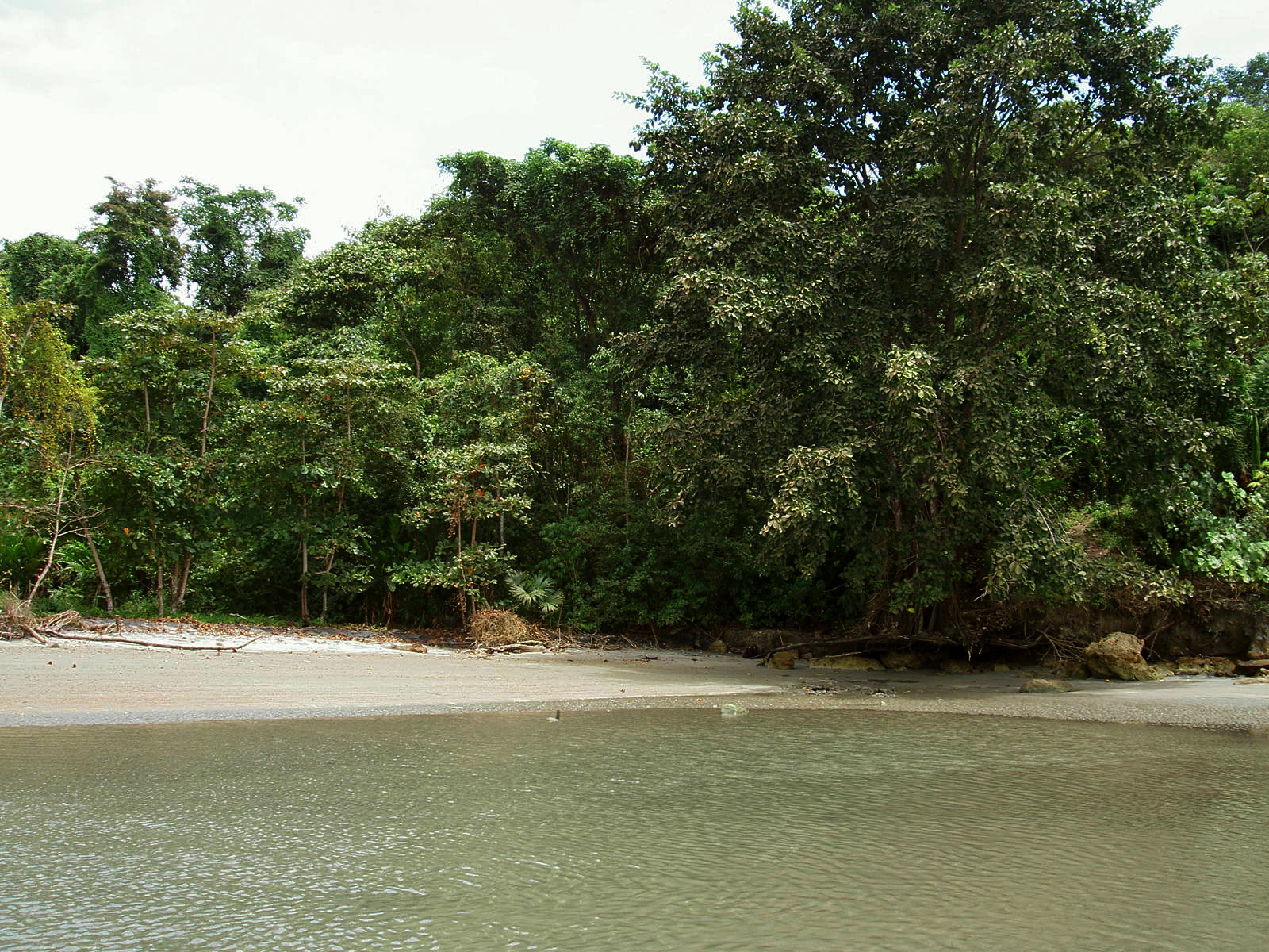 Mangroves near Mompiche - Ecuador